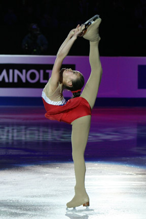 Caroline Zhang (USA) performs a hyper-extended Biellmann spin during her exhibition program at the 2008 World Junior Figure Skating Championships. She won the silver medal at this competition.